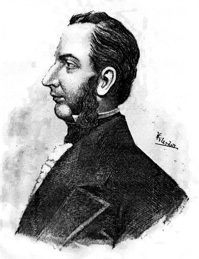 This historic Image from Francisco Morazan was giving to Baroness Wilson in the late 1800's by Francisco Morazan's son. Image appears in her book titled "Americanos Celebres" 1888. (Public Domain) Published in Spain. The author name is Vilardell. This drawing by Vilardell depicts General Morazán in his late forties.